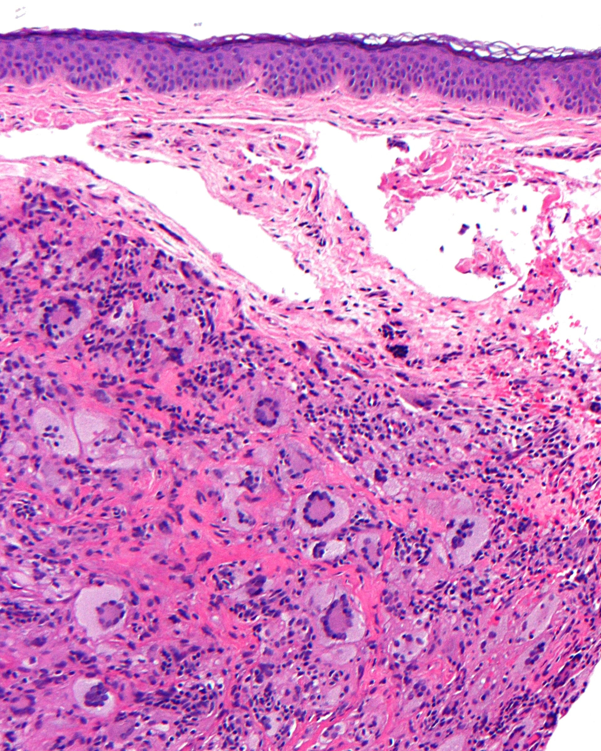 Intermediate / High / Very high magnification micrograph of a juvenile xanthogranuloma. H&E stain. The images show the distinctive touton giant cells. Related images Intermed. mag. High mag. Very high mag.